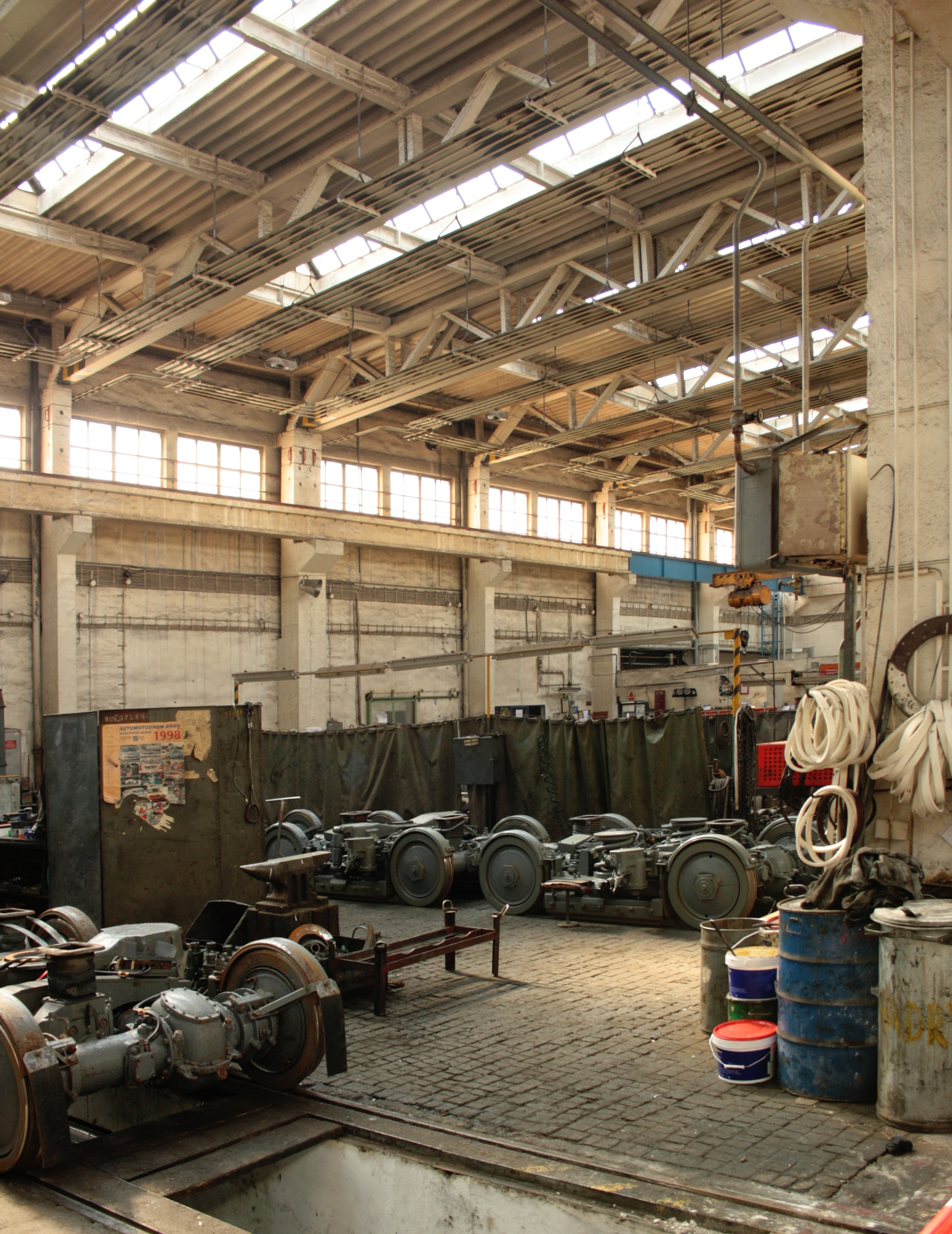 Inside of tram works Medlánky in Brno - tram bogies This photograph was taken with a DSLR from WMCZ's Camera grant.